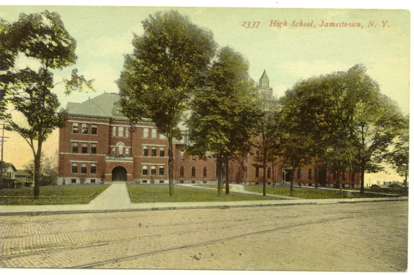 Postcard: Jamestown High School in Jamestown, New York, circa 1906-1916